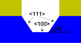 An anisotropic wet etch in silicon. Shows the important crystal planes.